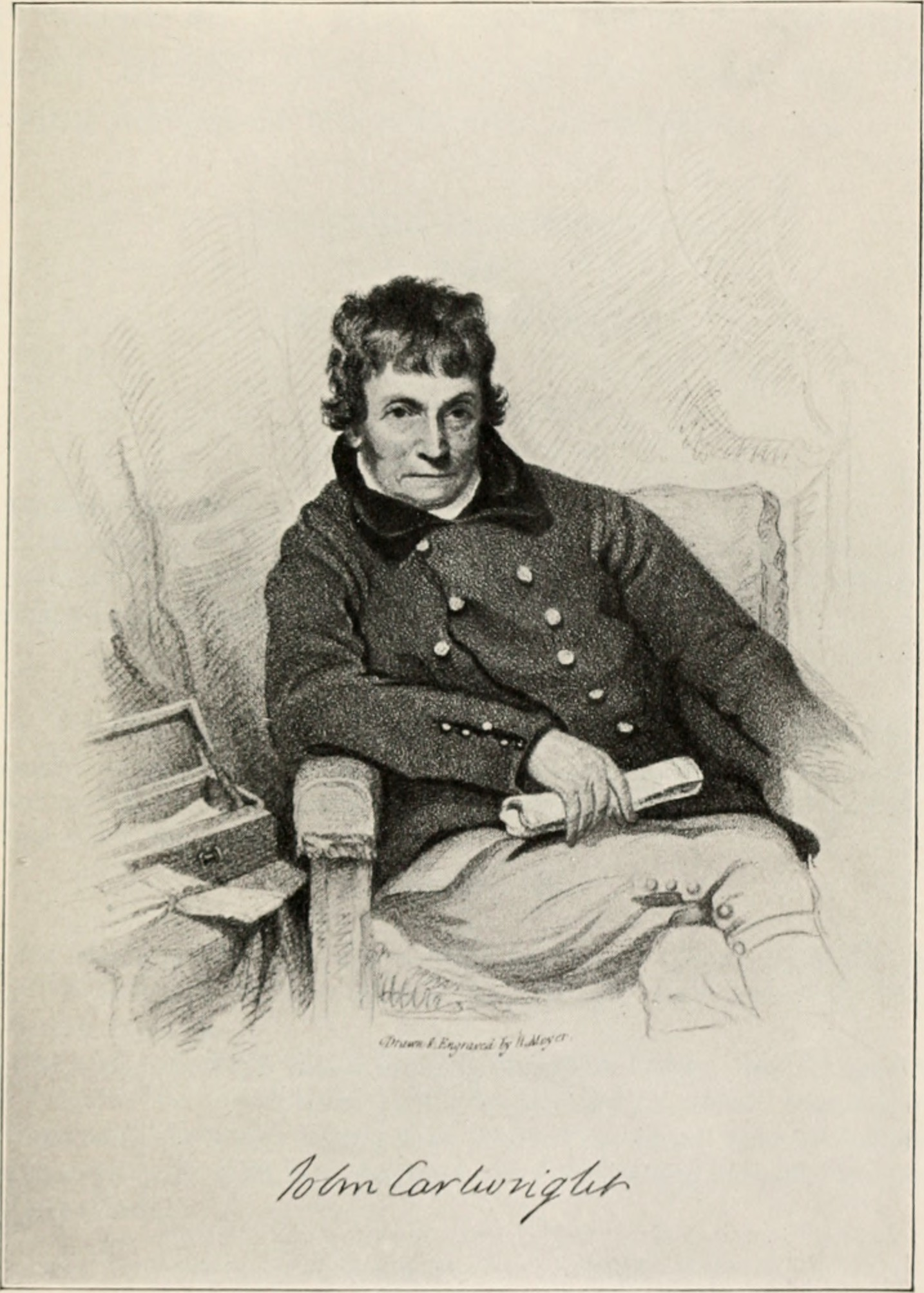 Title: Captain Cartwright and his Labrador journal Year: 1911 (1910s) Authors: Cartwright, George, 1739-1819; Townsend, Charles Wendell, 1859- Subjects: Frontier and pioneer life -- Newfoundland and Labrador Labrador; Hunting -- Newfoundland and Labrador Labrador; Labrador (N. L. ) -- Description and travel Publisher: Boston : D. Estes & company Text Appearing Before Image: ' Text Appearing After Image: John Cartwright